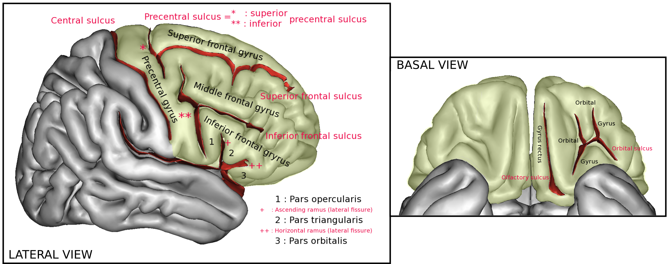 Ænglisc: Frontal lobe, gyri and sulci